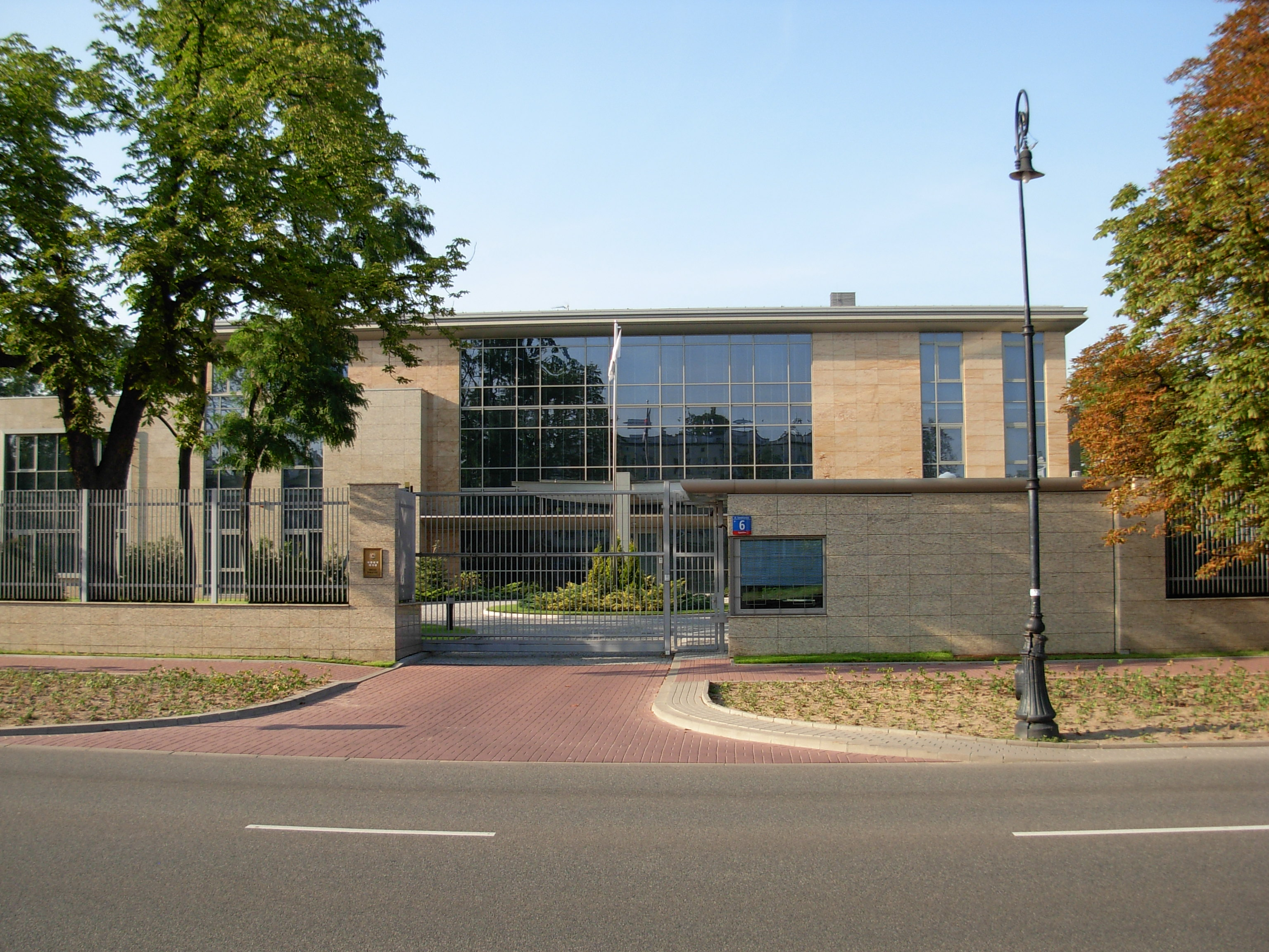 Embassy of the Republic of Korea in Warsaw